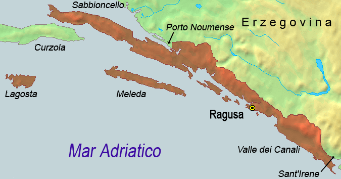 Map of the Republic of Ragusa as of 1808